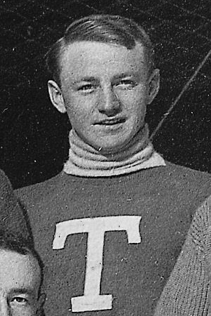 Ice hockey player Carol "Cully" Wilson of the 1913-14 Toronto Blueshirts.